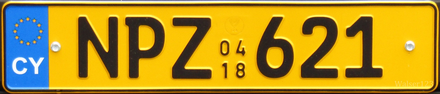 Cyprus truck plate NPZ 621